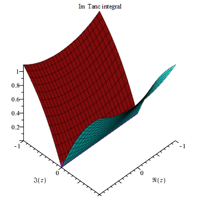 Tanc integral Im plot